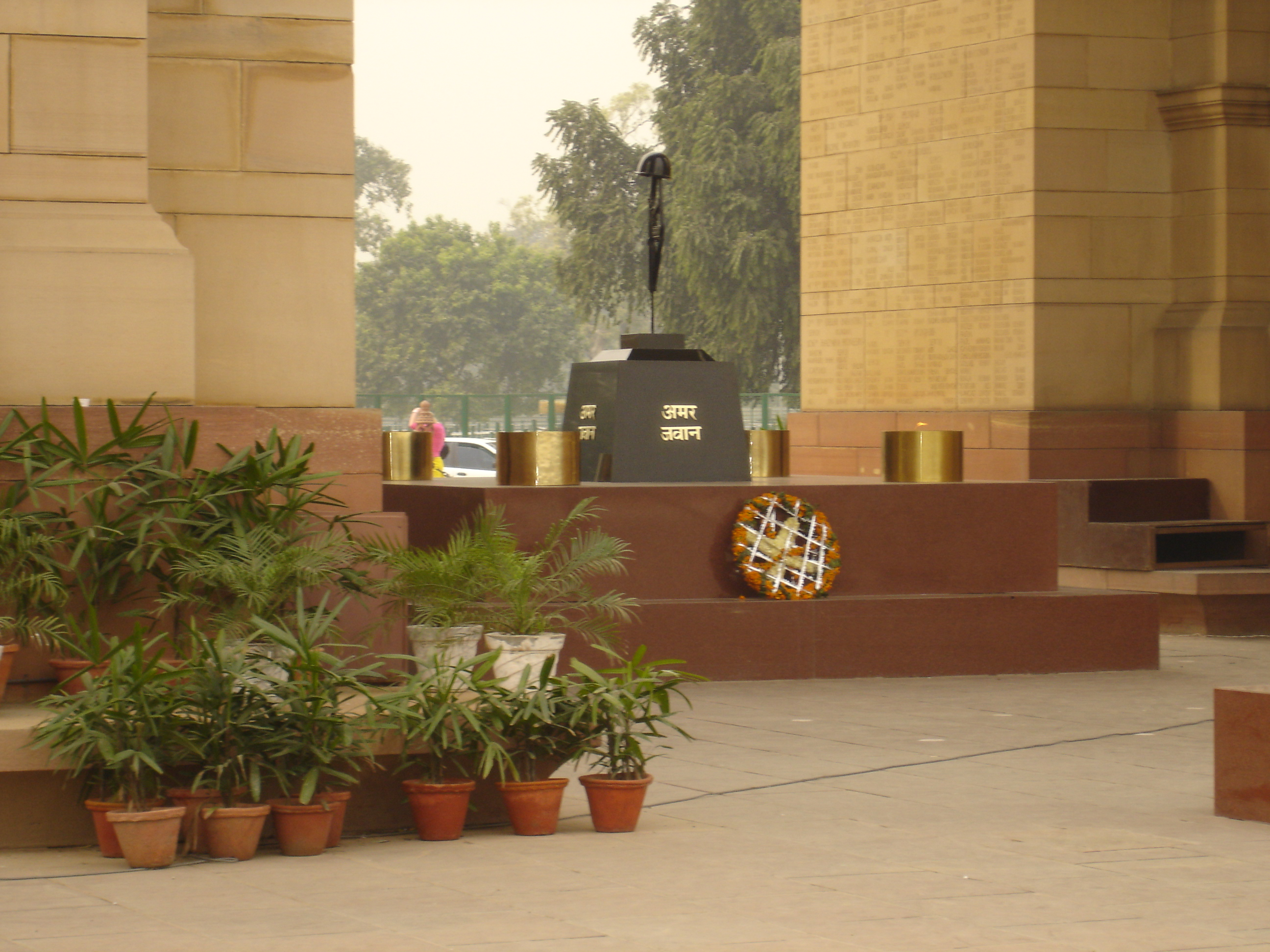 The tomb of the Unknown Soldier in New Delhi, Delhi. A flame known as the Amar Jawan Jyoti (the flame of the immortal soldier) is kept perpetually alive here.